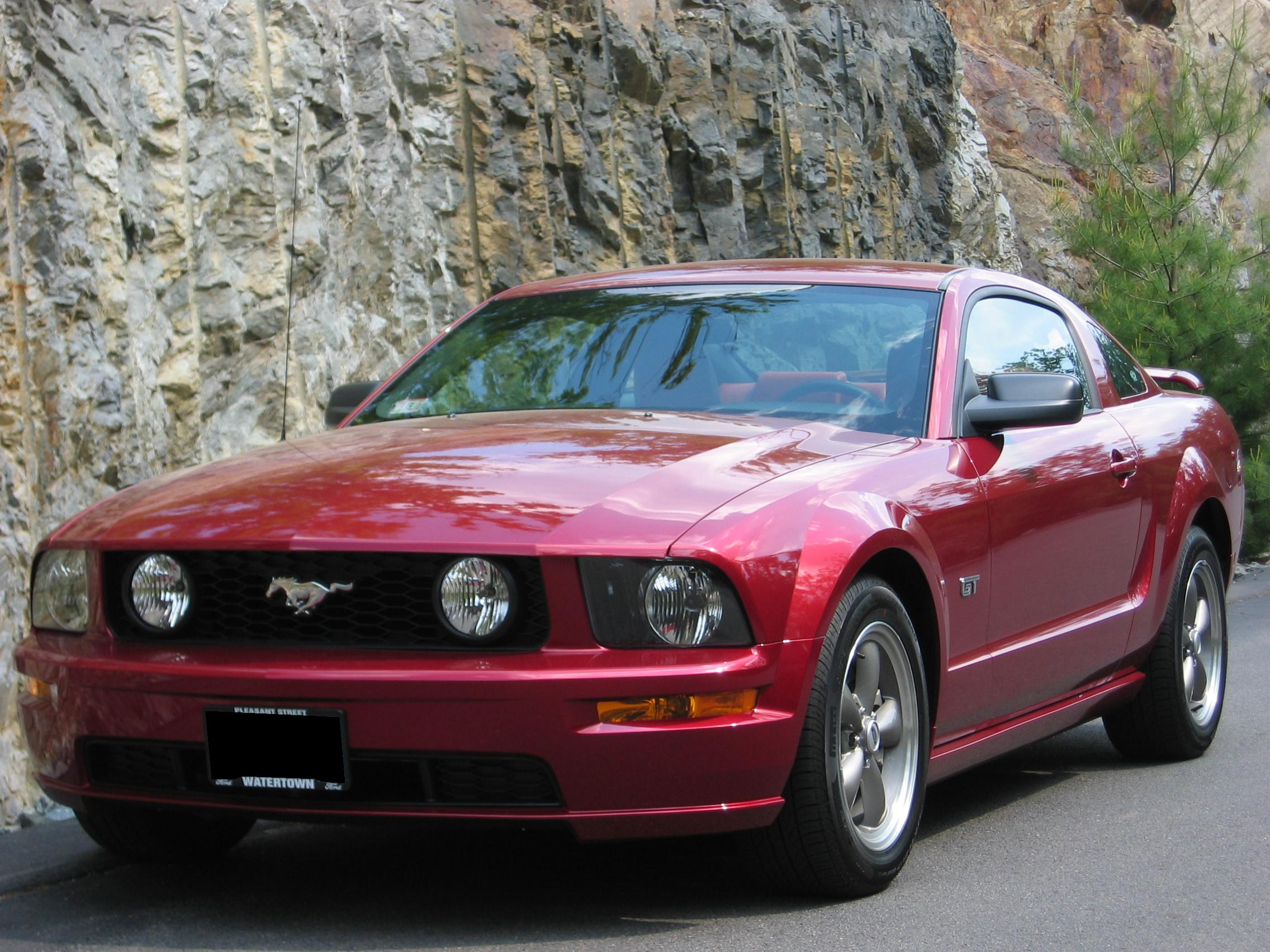 Photograph by Kevin Foley, Waltham, MA USA.